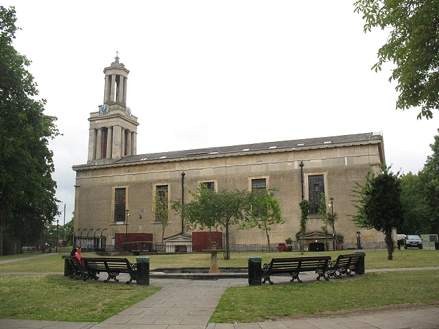 St Matthew's church, Brixton, near to Brixton, Lambeth, Great Britain. The parish church of Brixton was built in 1822 to the designs of C.F. Porden. St Matthew's and its churchyard (now a public park) stand on a triangle of land that forms a gyratory traffic system. The building is listed grade 2* (listed building no. 204008), but during the 1970's and 1980's the interior was significantly re-ordered to provide a range of community facilities, and following the financial collapse of that enterprise it was again refurbished in 1993-4. The basement is now a restaurant/nightclub, but part of the ground floor is still set aside as a parish church TQ3075 : St Matthew's church, Brixton - worship area .